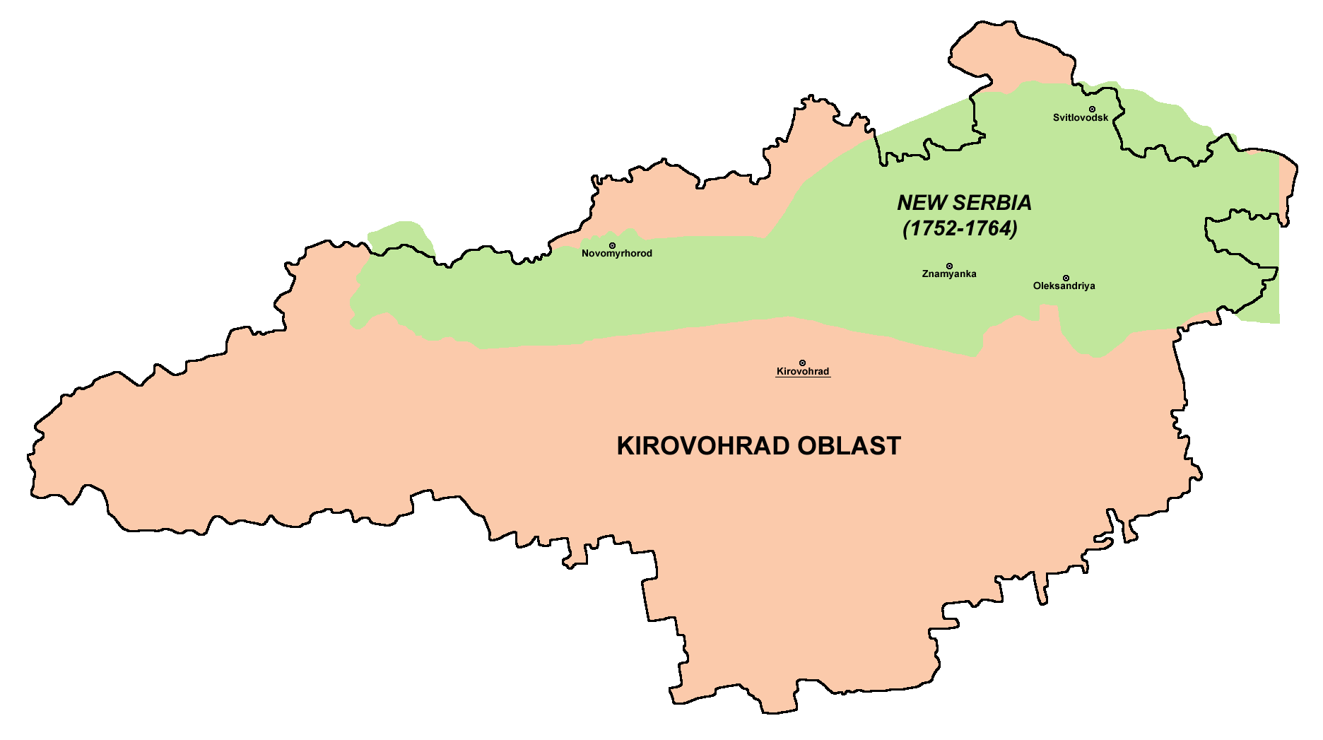 Borders of historical New Serbia (1752-1764) compared with borders of modern Kirovohrad Oblast of Ukraine.